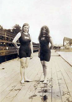 Fanny Durrack (left) and Mina Wylie, Australian swimmers